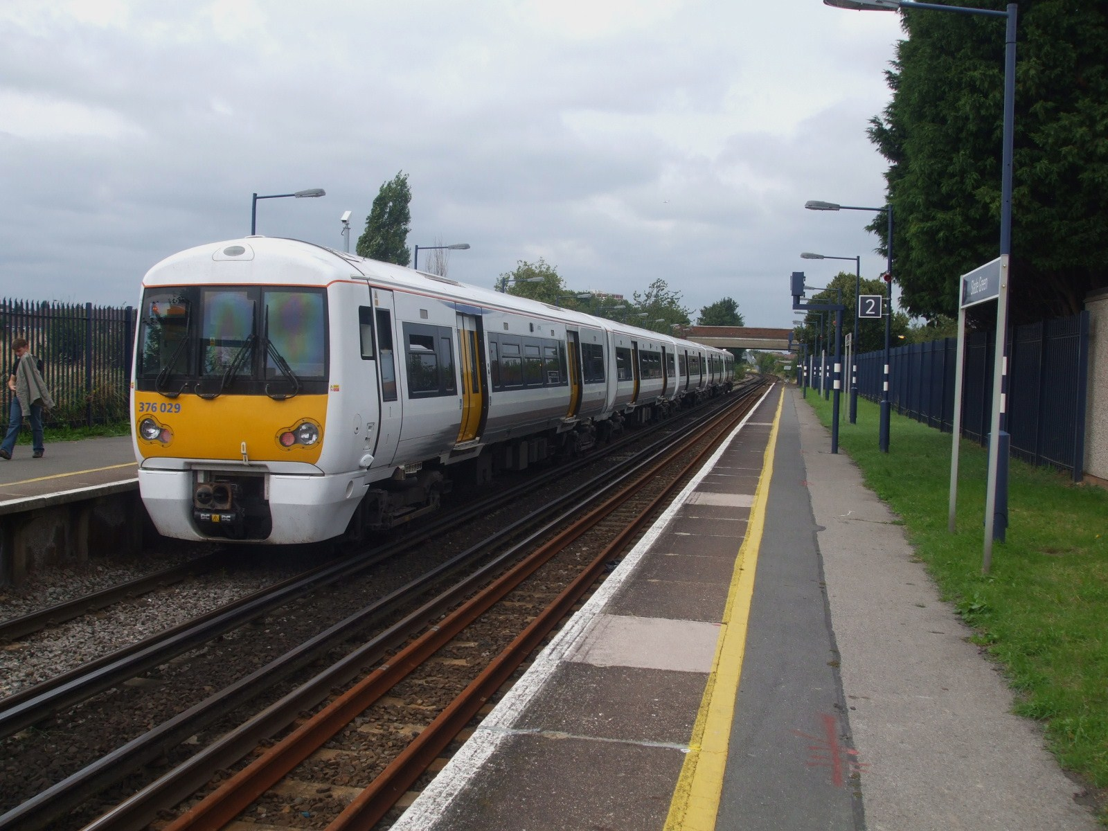 Class 376 unit 376029 calls at Slade Green station with a London-bound service